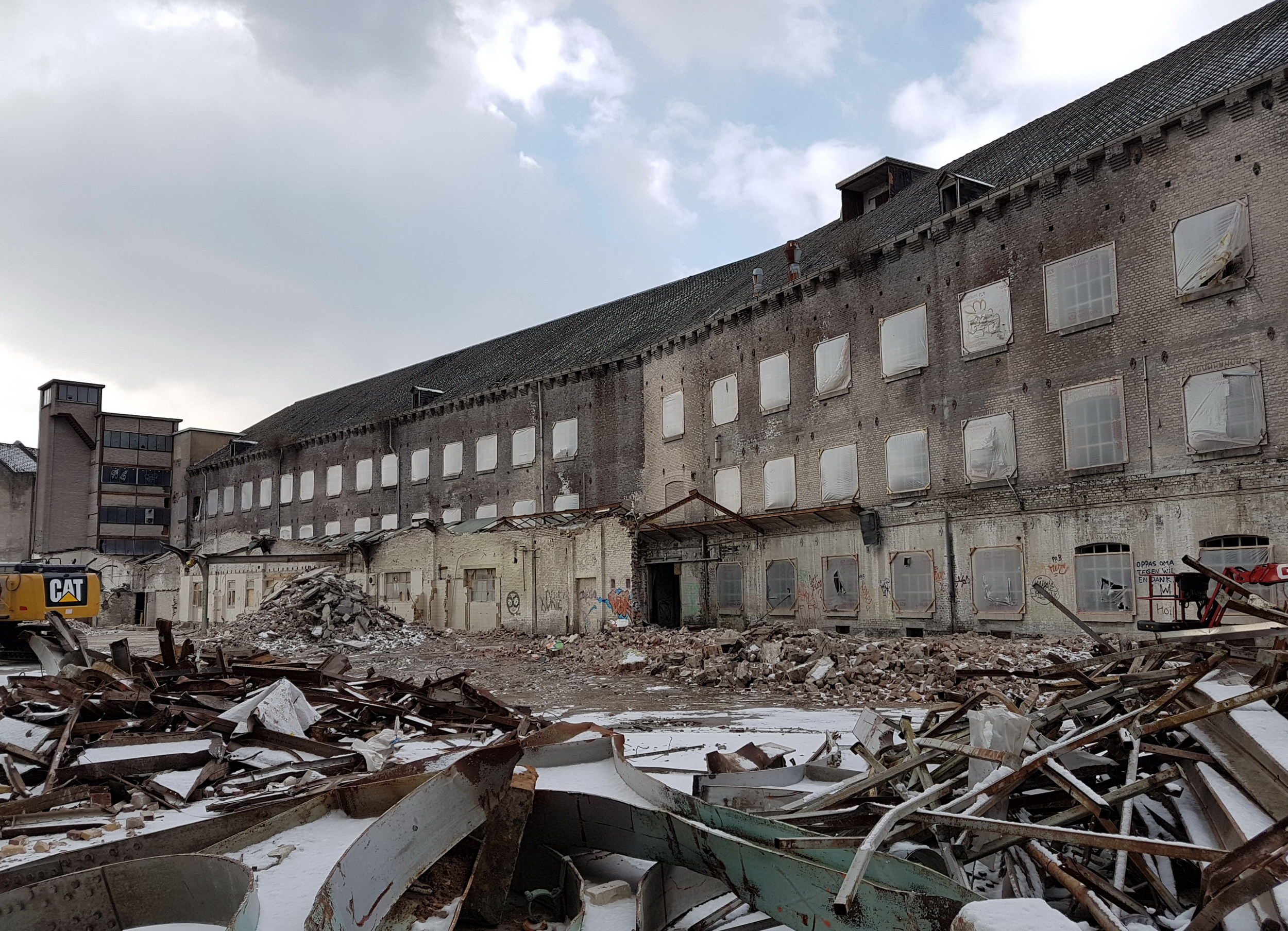 View of the so-called Kop van de Sphinx buildings in Maastricht, the Netherlands. These derelict buildings from the late 19th century once belonged to Royal Sphinx ceramics factories and are awaiting redevelopment.